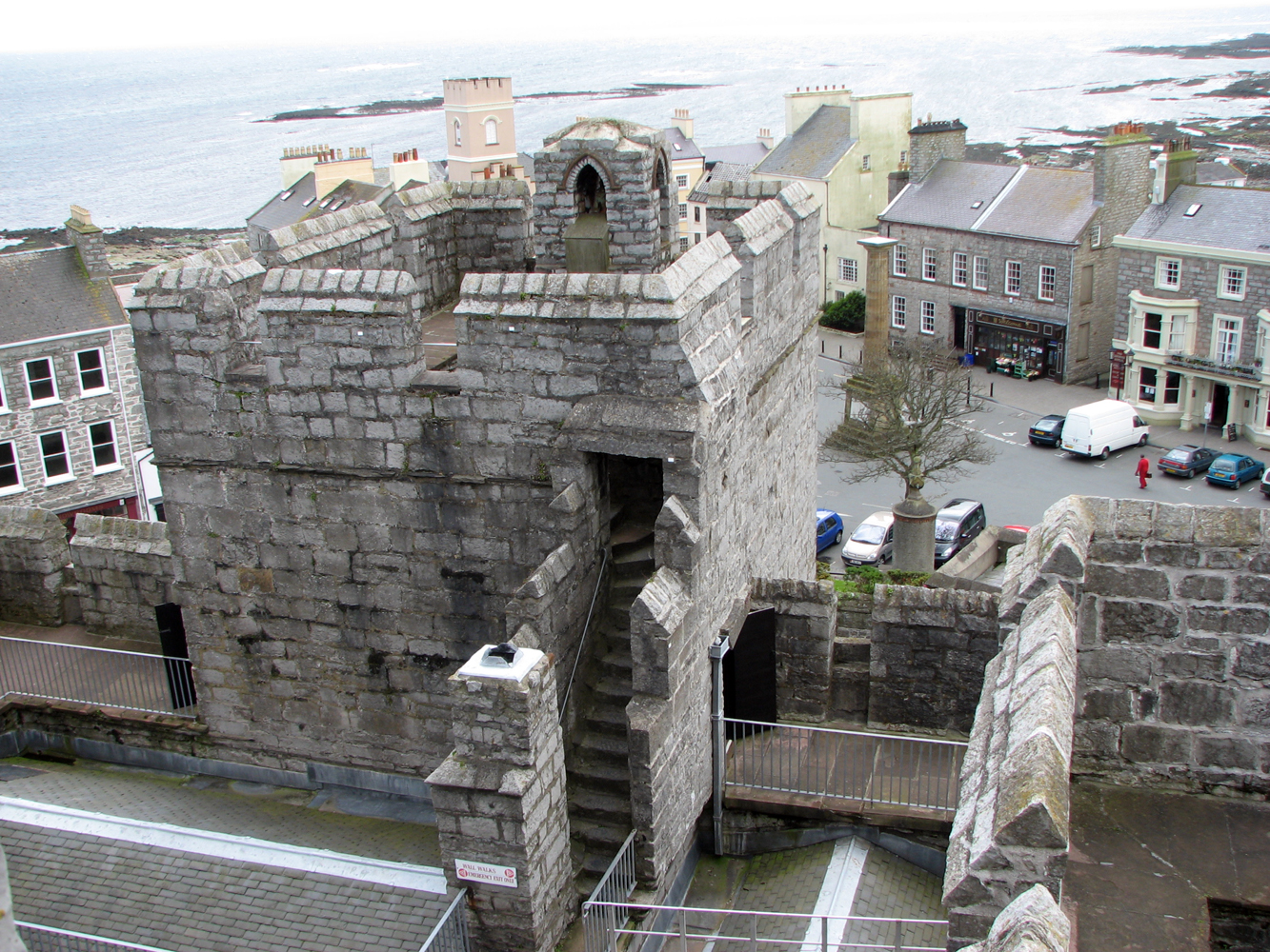 Castle Rushen, view from the top toward the bay and the market square, Isle of Man